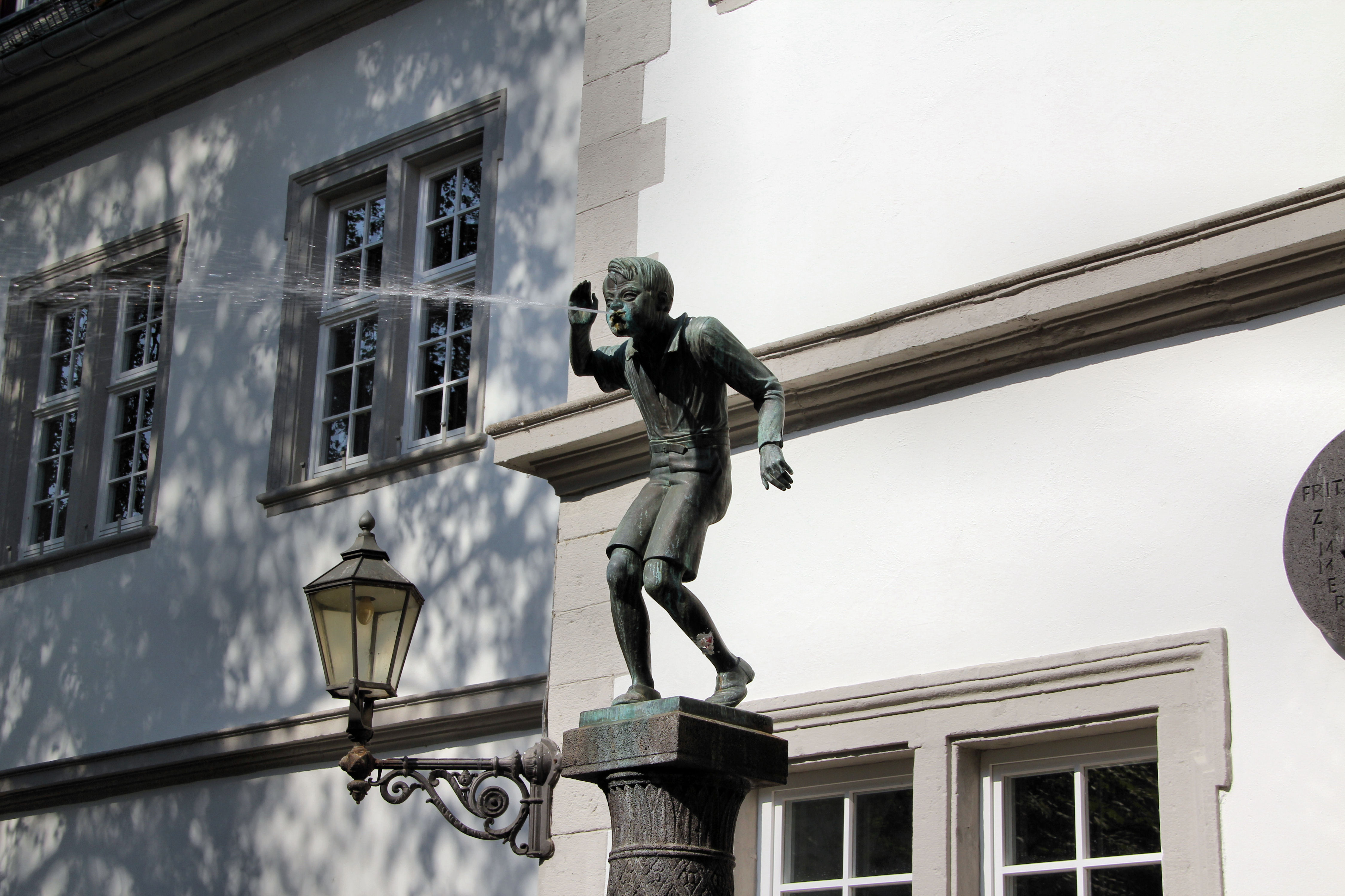 City hall of Koblenz